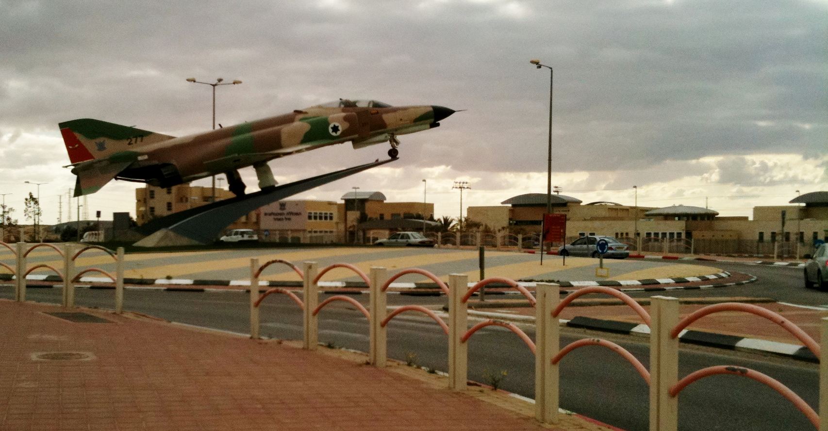 Old F-4 Phantom II Airplane in front of the Air Force boarding technique high school, Naot Lon, Beersheva